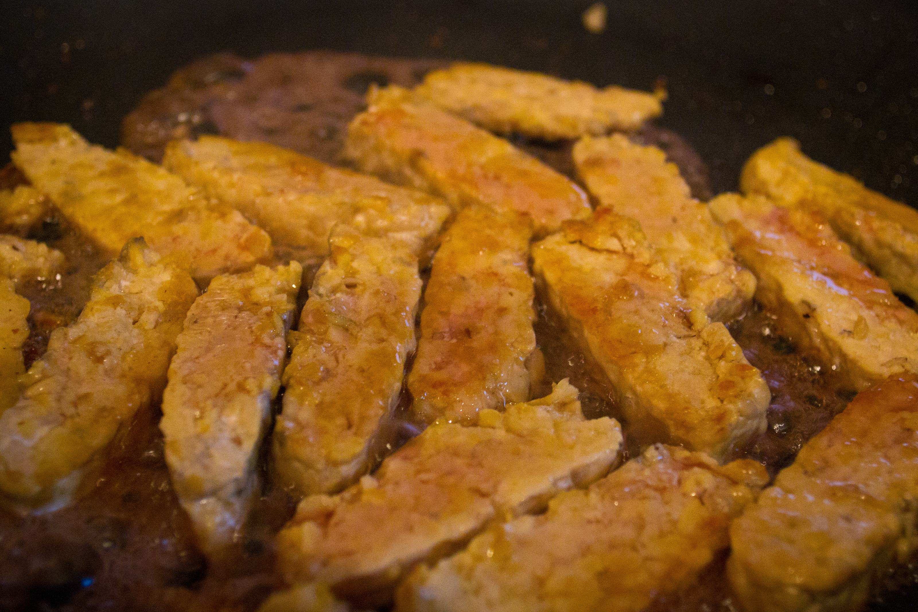 Cooking Tempeh 5924341900 o